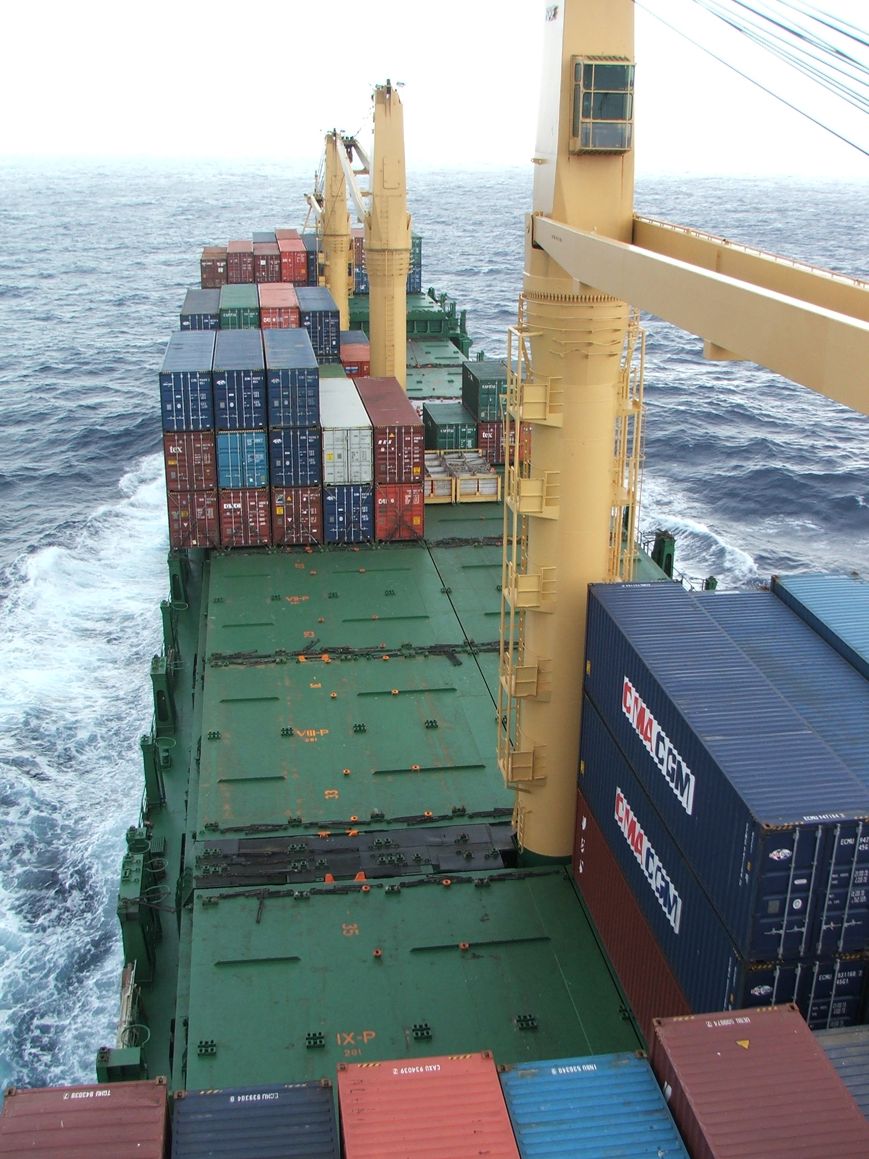 View on deck of a geared container vessel